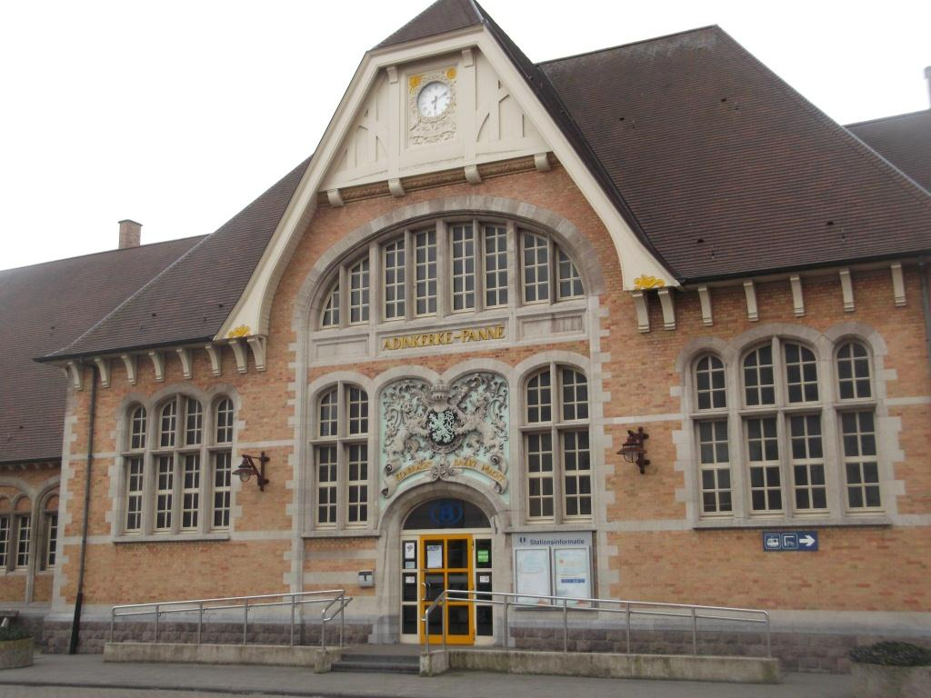 Adinkerke-Panne railway station